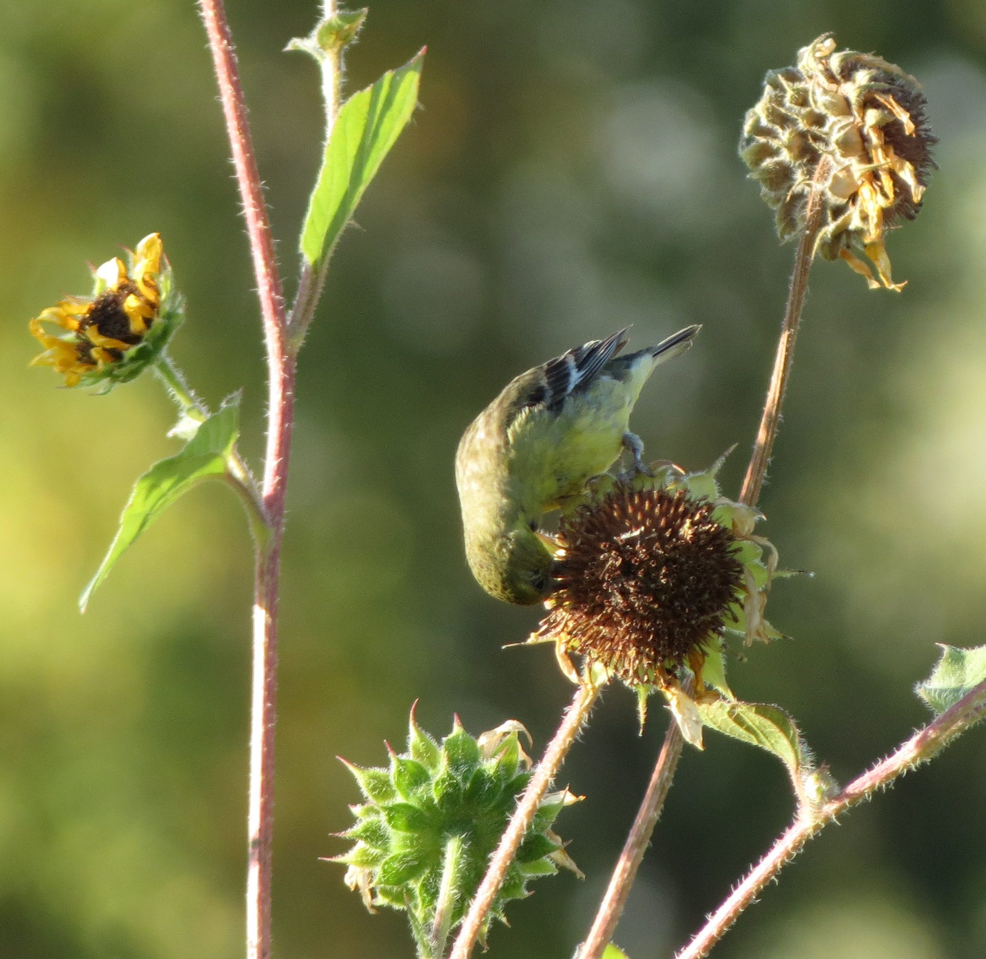 lesser goldfinch, Loveland, Colorado / 2012